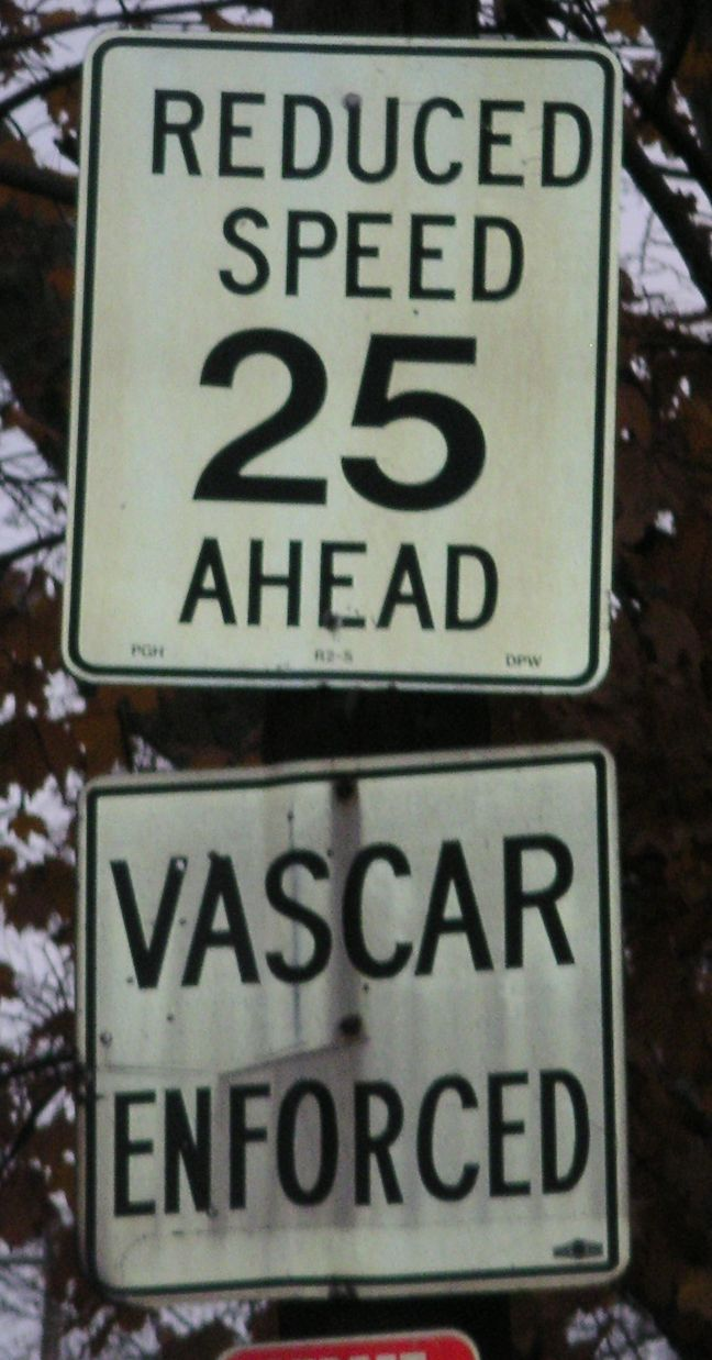 Street sign in Pittsburgh, Pennsylvania showing a speed limit that is enforced by VASCAR.